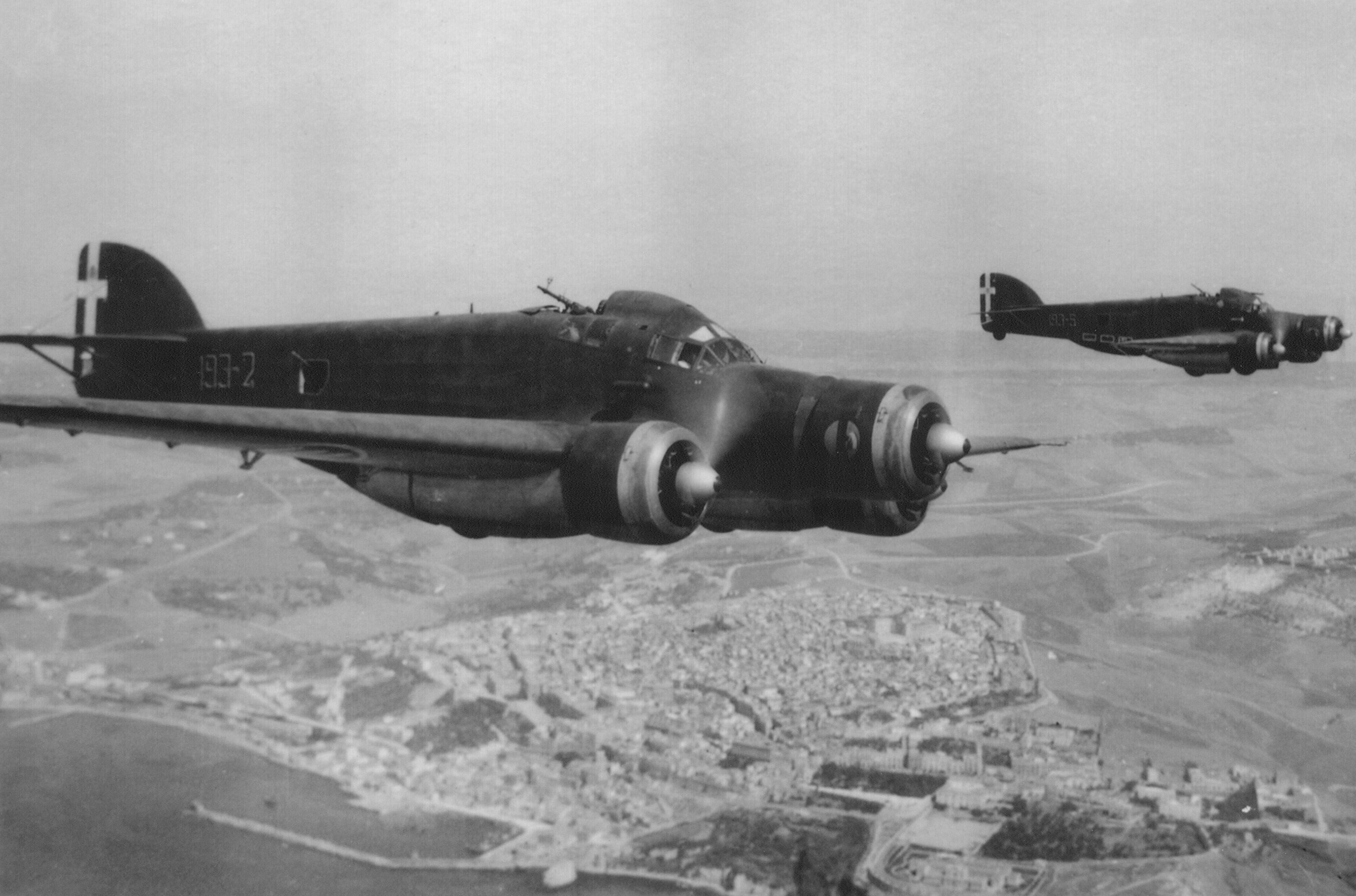 two Savoia-Marchetti S.M.79 of the 193ª Squadriglia Bombardamento Terrestre (193th Land Bombing Squadrilla), 87º Gruppo (87th Group), 30º Stormo (87th Wing). From the private archive of Riggio family. Original version. digitally restored version.